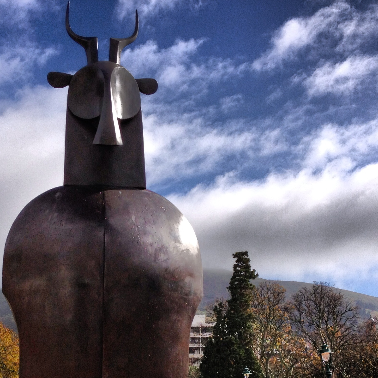 Located in the Company's Gardens directly in front of the Iziko National Gallery. This media shows a South African Protected Site with SAHRA file reference 9/2/018/0149.